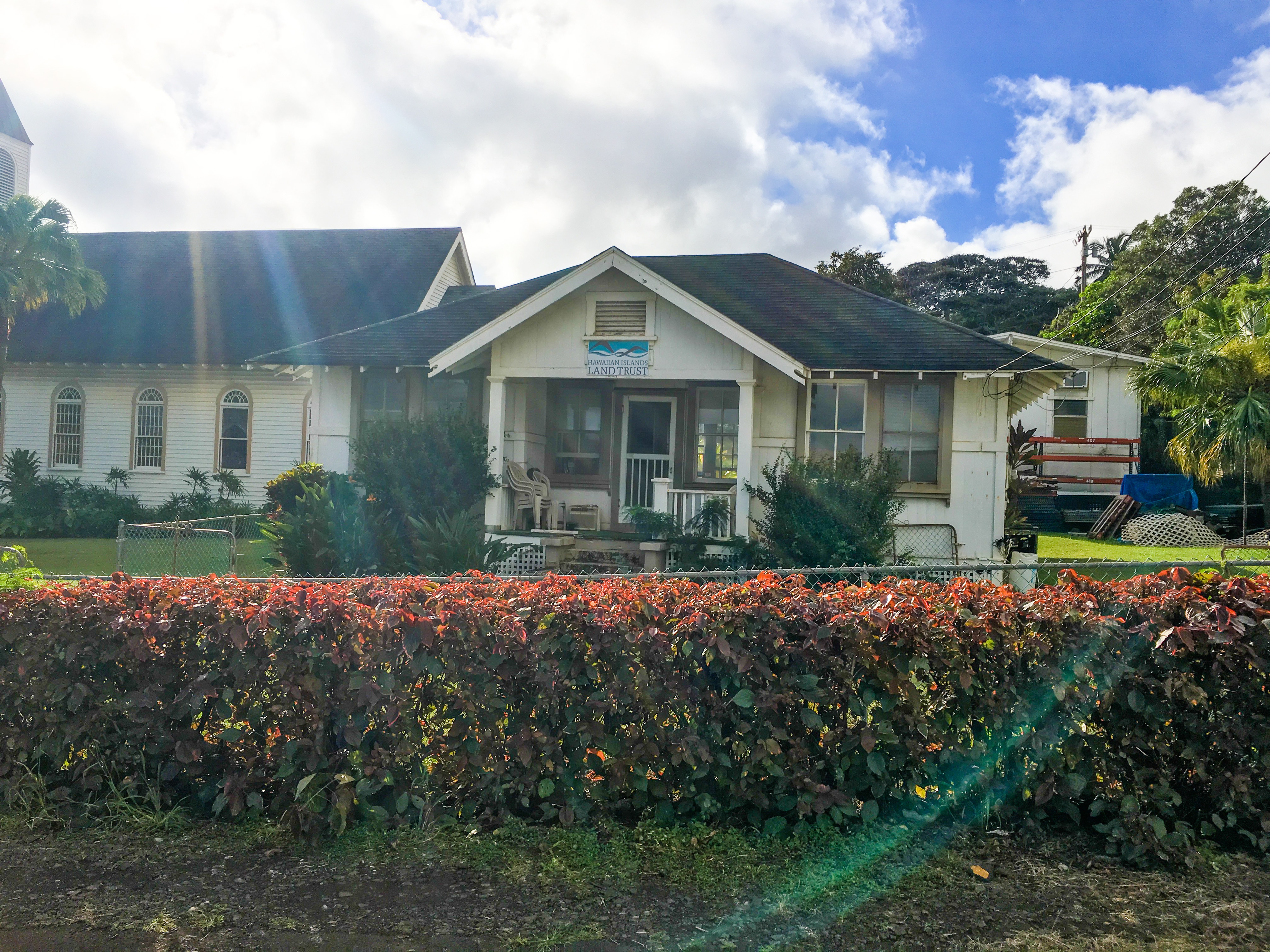 Hawaiian Islands Land Trust